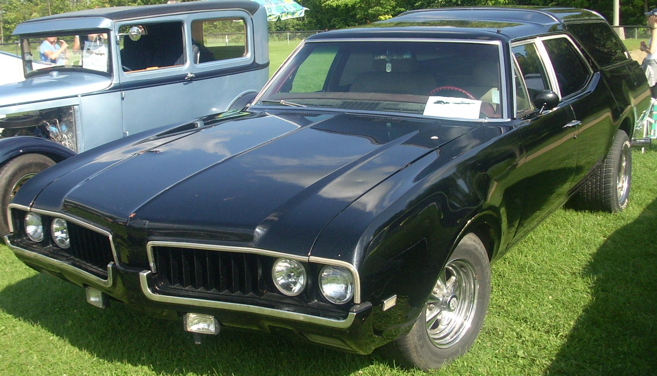 1969 Oldsmobile Vista Cruiser photographed at the Rassemblement Rigaud Car Show.